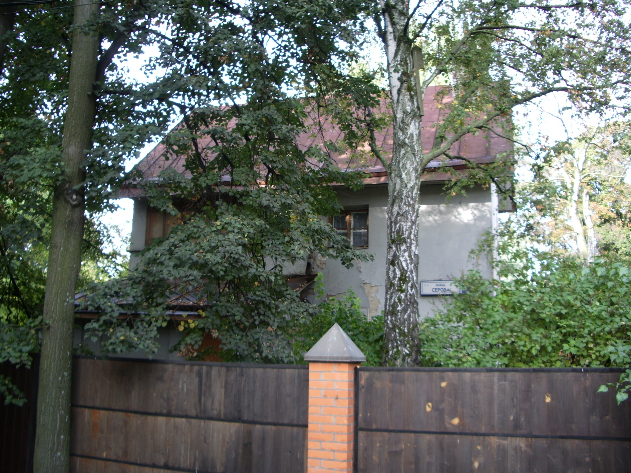 Serova street, 1. Sokol Settlement in Moscow.